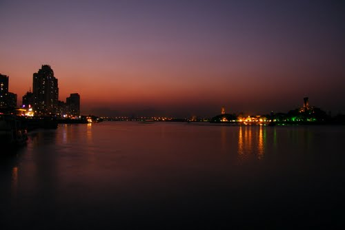 Oujiang_River_night